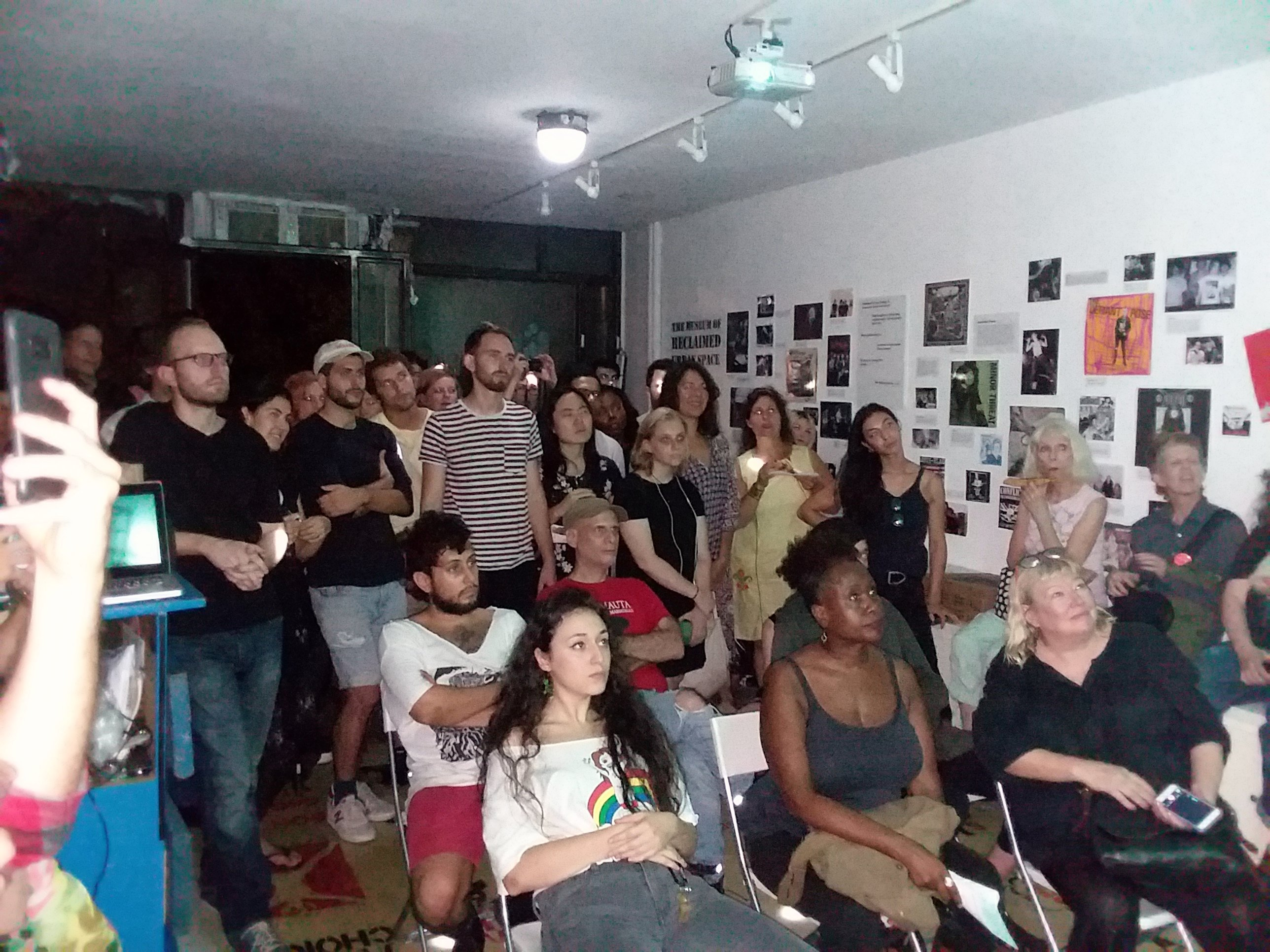 In this image, guests enjoy a presentation held in the Museum.